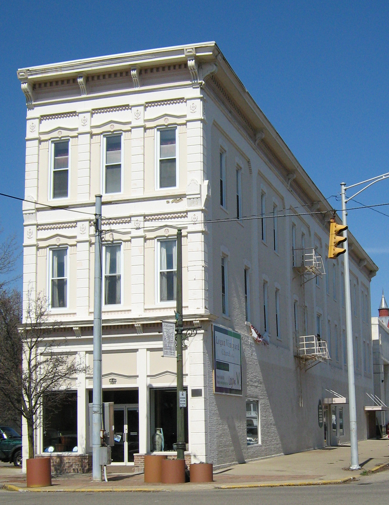 The McCarthy-Blosser-Dillon Building at 4 W. Main St. in Logan, Hocking County, Ohio, United States. Built in 1883, this building is listed on the National Register of Historic Places.